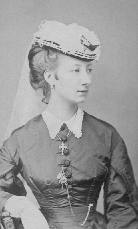 Princess Marguerite Adélaïde Czartoryska (nee Princess of Orléans)